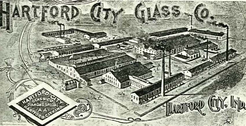 1896 drawing of Hartford City Glass Company plant, third largest window glass plant in the United States at the time.